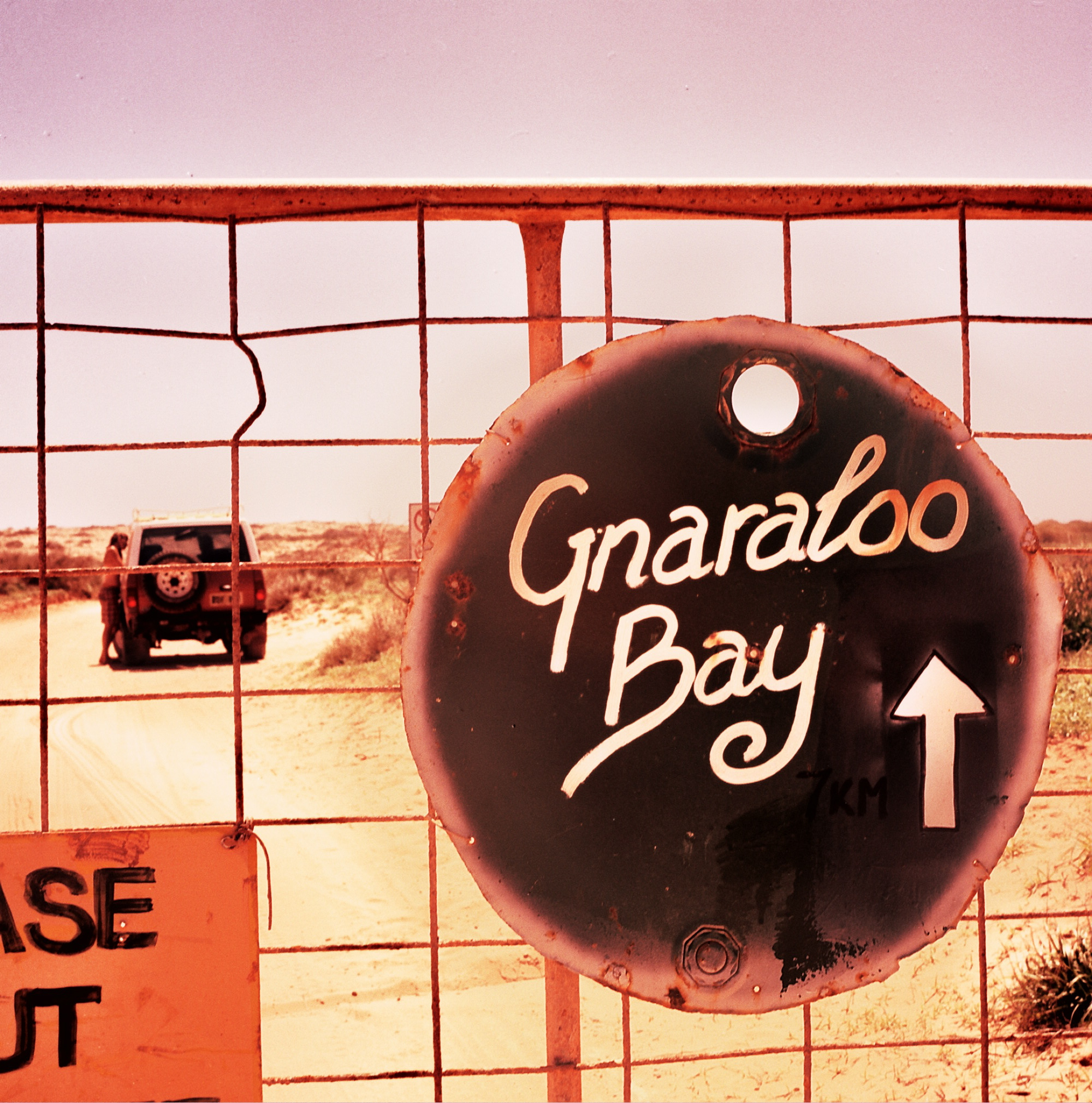 on the ningaloo coast